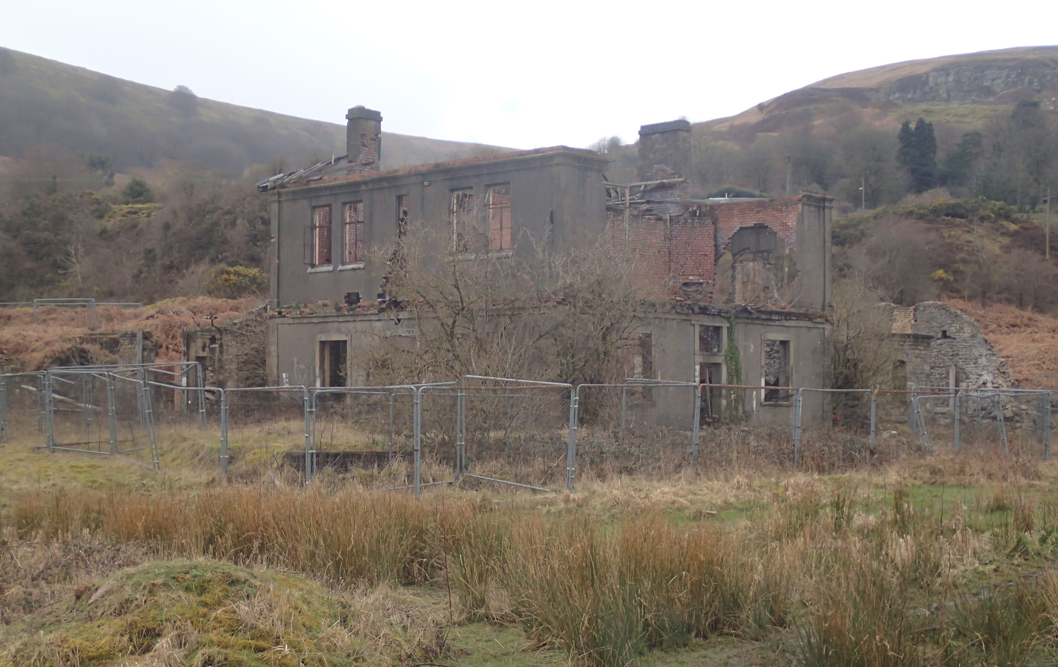 Remains of the British Ironworks office, Abersychan.